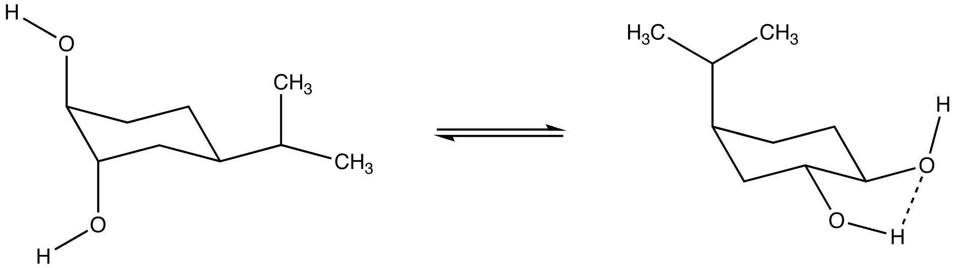 The chair flip and hydrogen bonding available in a trisubstituted ring